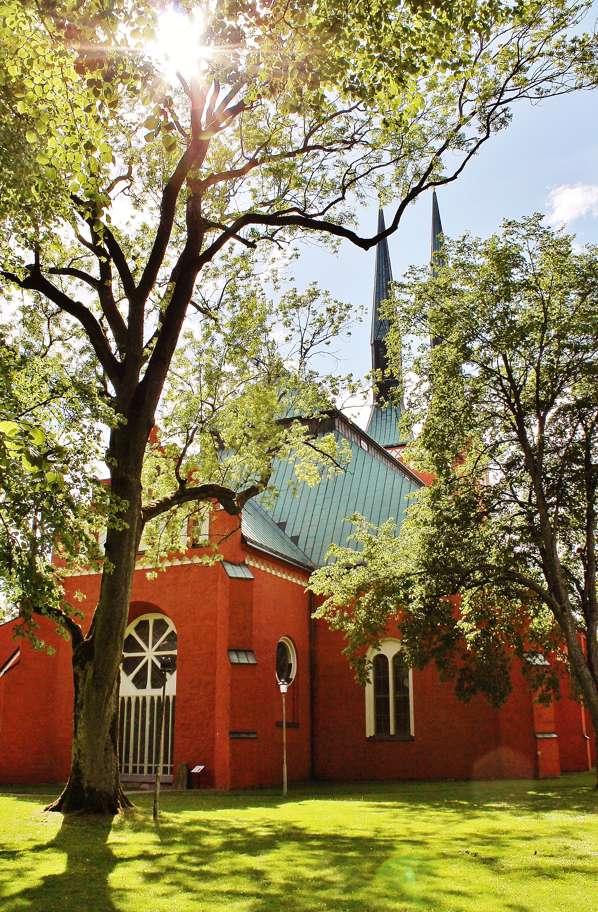 Växjö Cathedral .